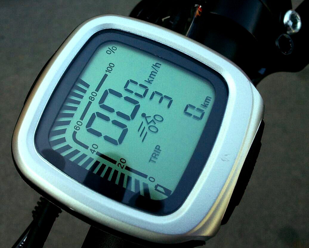 Hybrid bicycle clock with battery level.